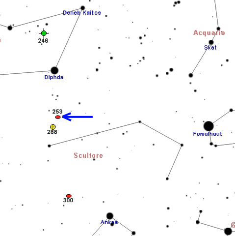 NGC 253